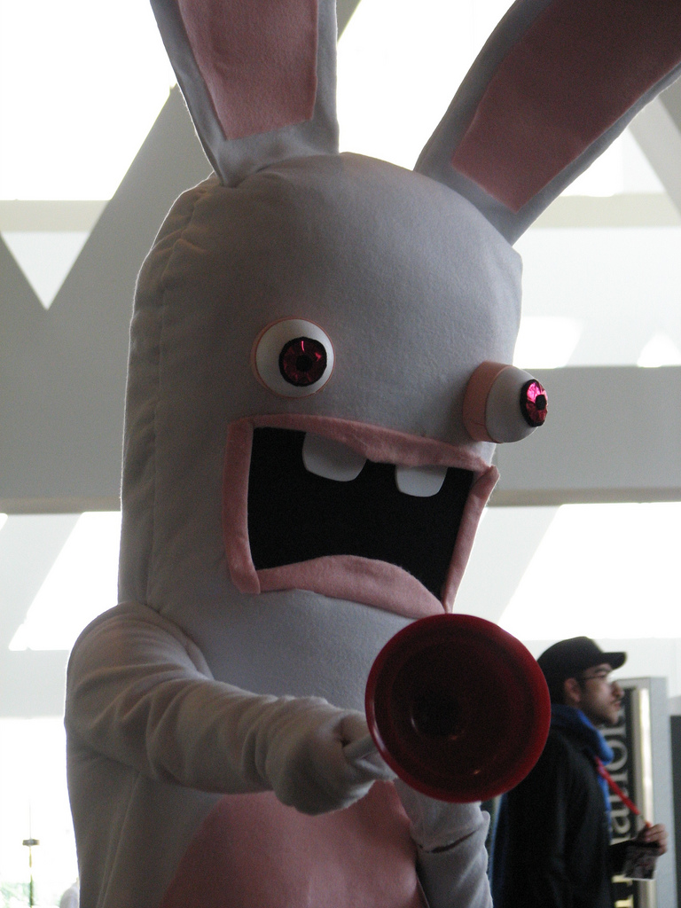 Rabbids cosplay at Otakon, photographed by Sunrise Ottah in July 2007.